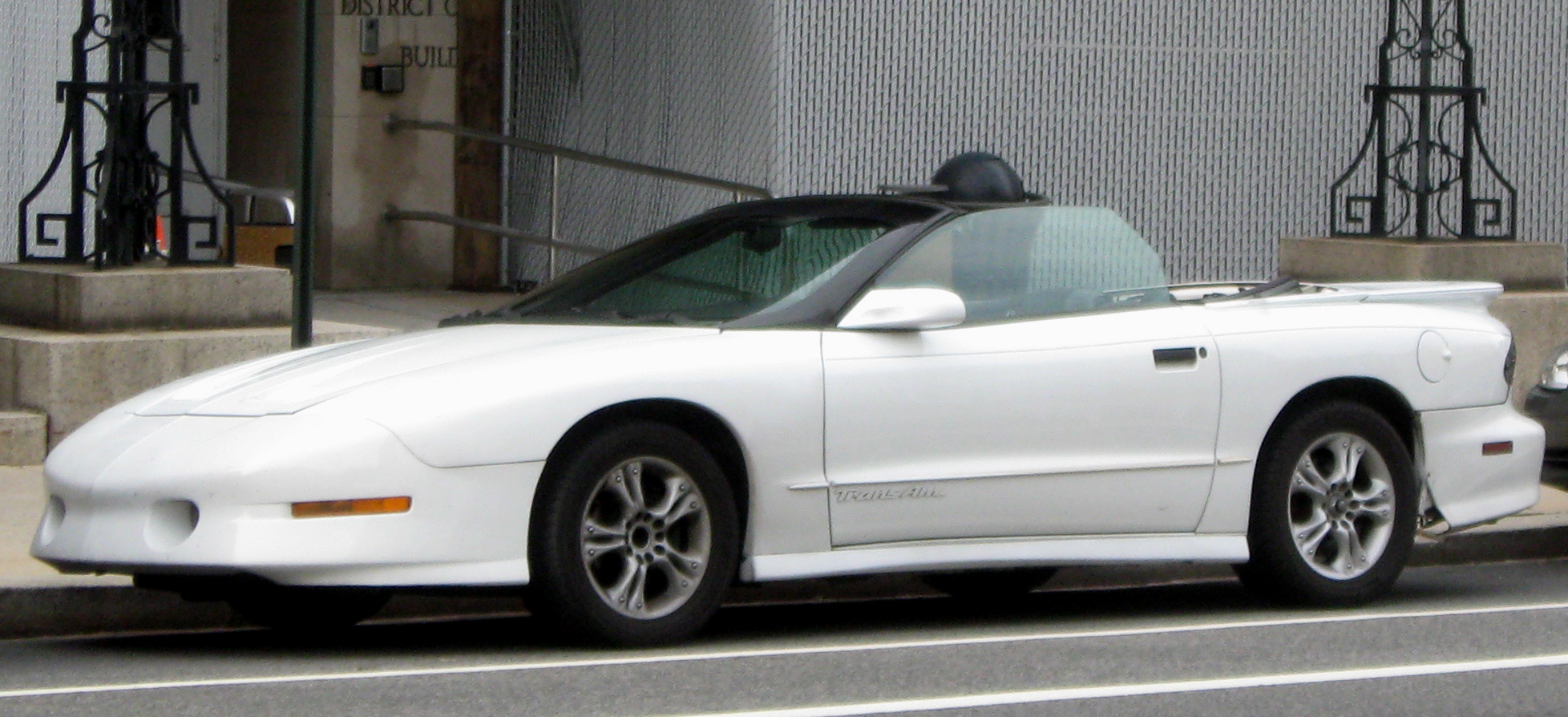 1993-1997 Pontiac Trans Am photographed in Washington, D.C., USA.